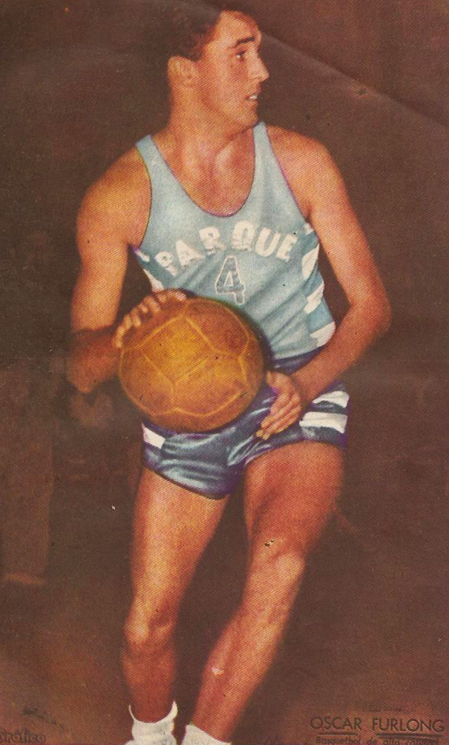 Former Argentine basketball player, Oscar Furlong, with the Club Gimnasia y Esgrima de Villa del Parque jersey. His achievements include the 1950 World Cup with the Argentina national team.